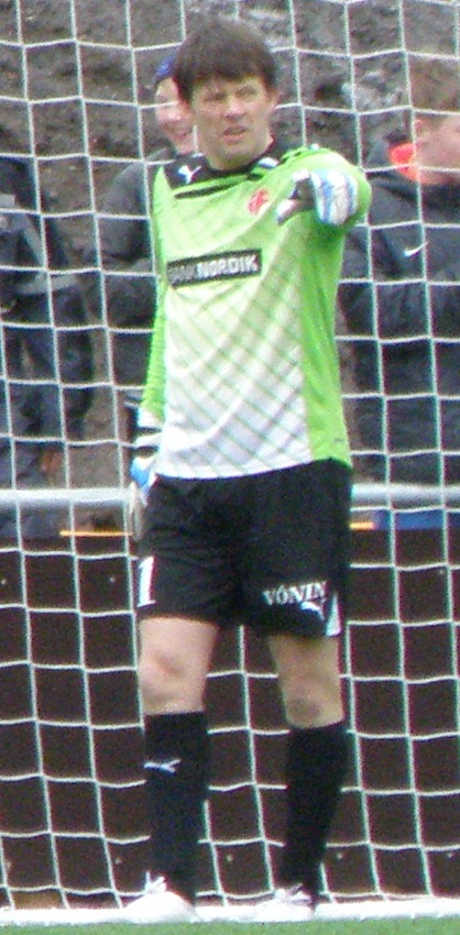 Jákup Mikkelsen is a Faroese goal keeper, who currently (2012) is goal keeper for ÍF Fuglafjørður and for the Faroe Islands national football team. He is currently the second most capped player on the national team with 71 matches. This photo was taken on 29 April 2012 at the first football match on the new stadium at Við Stórá in Trongisvágur. The match was between TB Tvøroyri and ÍF Fuglafjørður. Føroyskt: Jákup Mikkelsen er ein føroyskur málverji í fótbólti. Hann hevur spælt 71 landsdystir fyri føroyska A-landsliðið hjá monnum, tað er næst flest. Í løtuni (2012) er hann málmaður fyri ÍF. Myndin varð tikin 29. apríl 2012 til tann allarfyrsta dystin á nýggja vøllinum hjá TB við Stórá í Trongisvági. TB vann dystin 1-0.